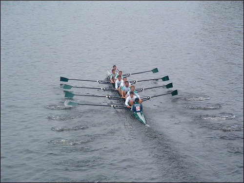 This is a picture of Queen's University Belfast racing in the Head of the Charles Regatta in 2003. I took this photo myself.